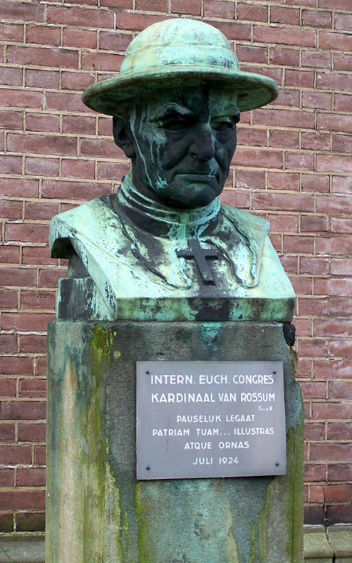 Bust of Cardinal Willem Marinus van Rossum at the Begijnhof in Amsterdam. Van Rossum was the first Dutch cardinal after the Reformation. Placed in 1928 in commemoration of the International Eucharistic Congress of 1924 held in Amsterdam. Bronze portrait bust by Gerard Hoppen. Originally part of a larger monument by Jan Kuijt that included two bronze plaques.